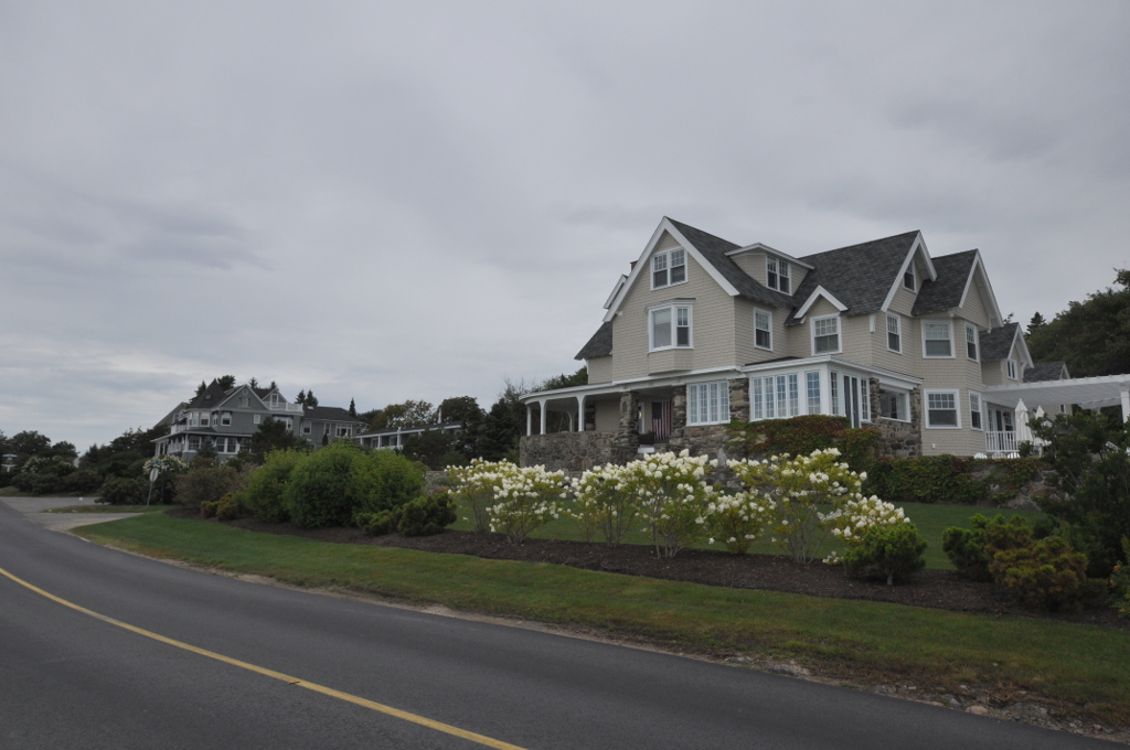 Cape Arundel Summer Colony Historic District, Kennebunkport, Maine.